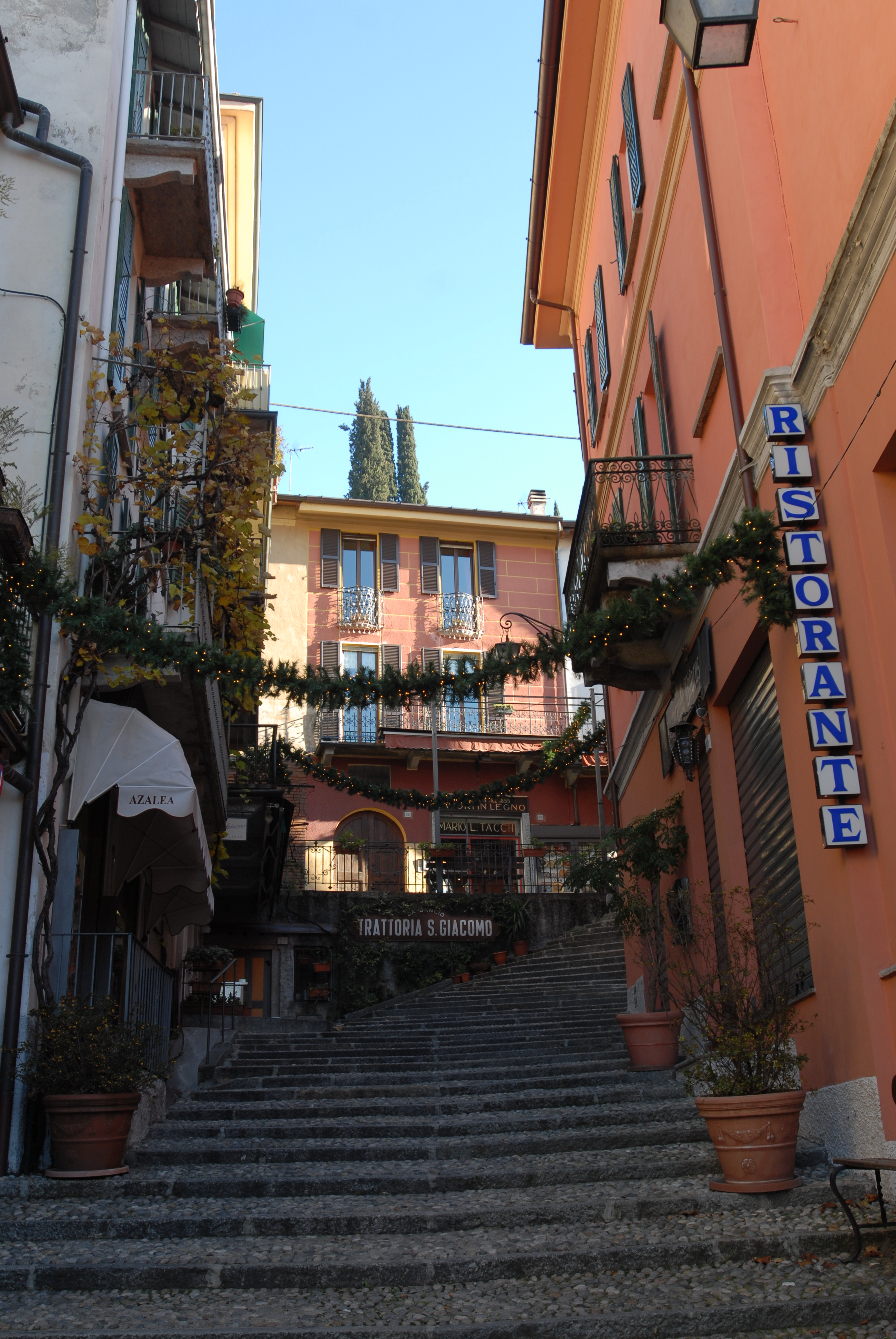 Streets/Steps of BelagioIDSC_0189